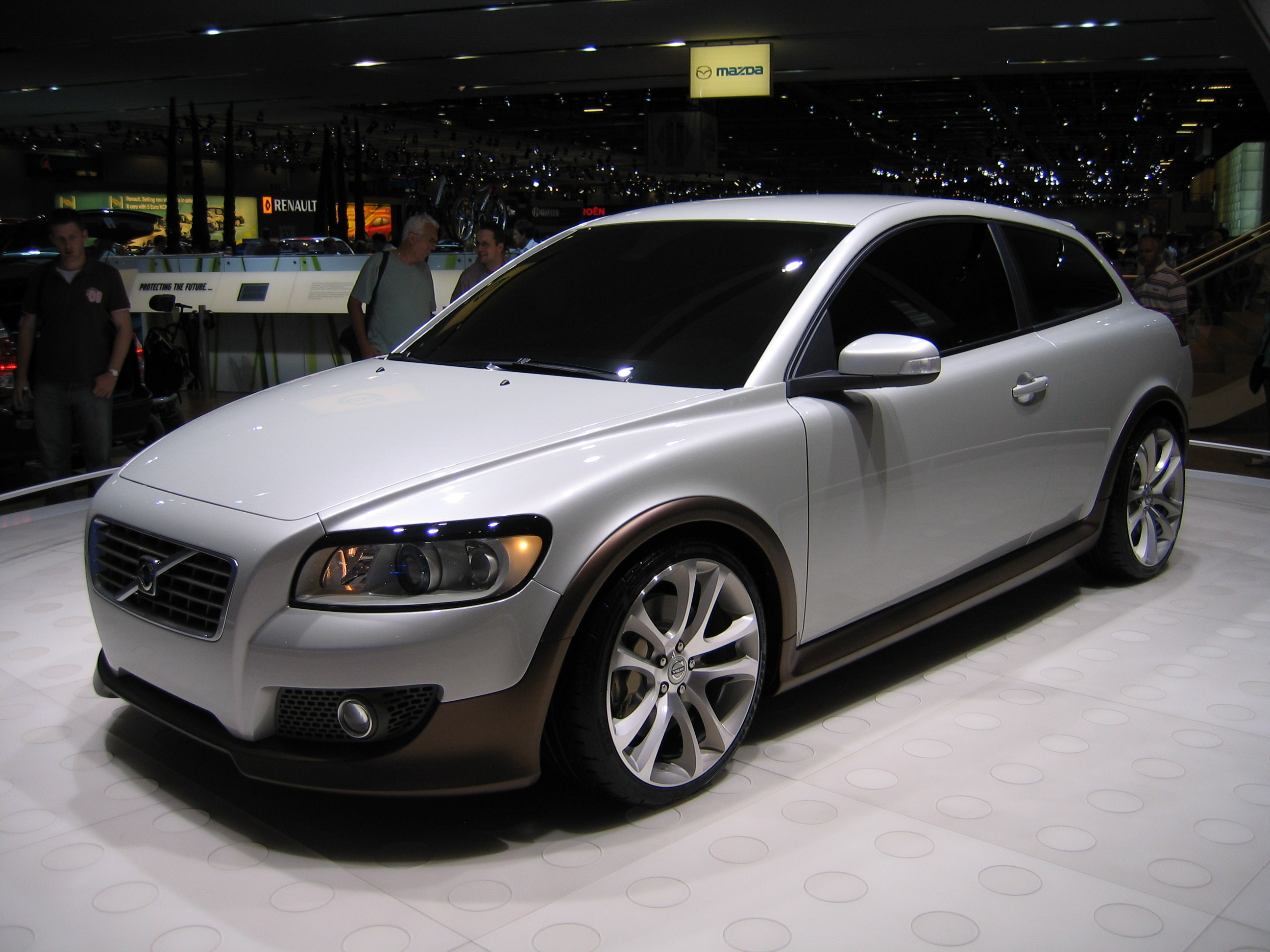 Volvo C30 Concept Car - British International Motor Show 2006